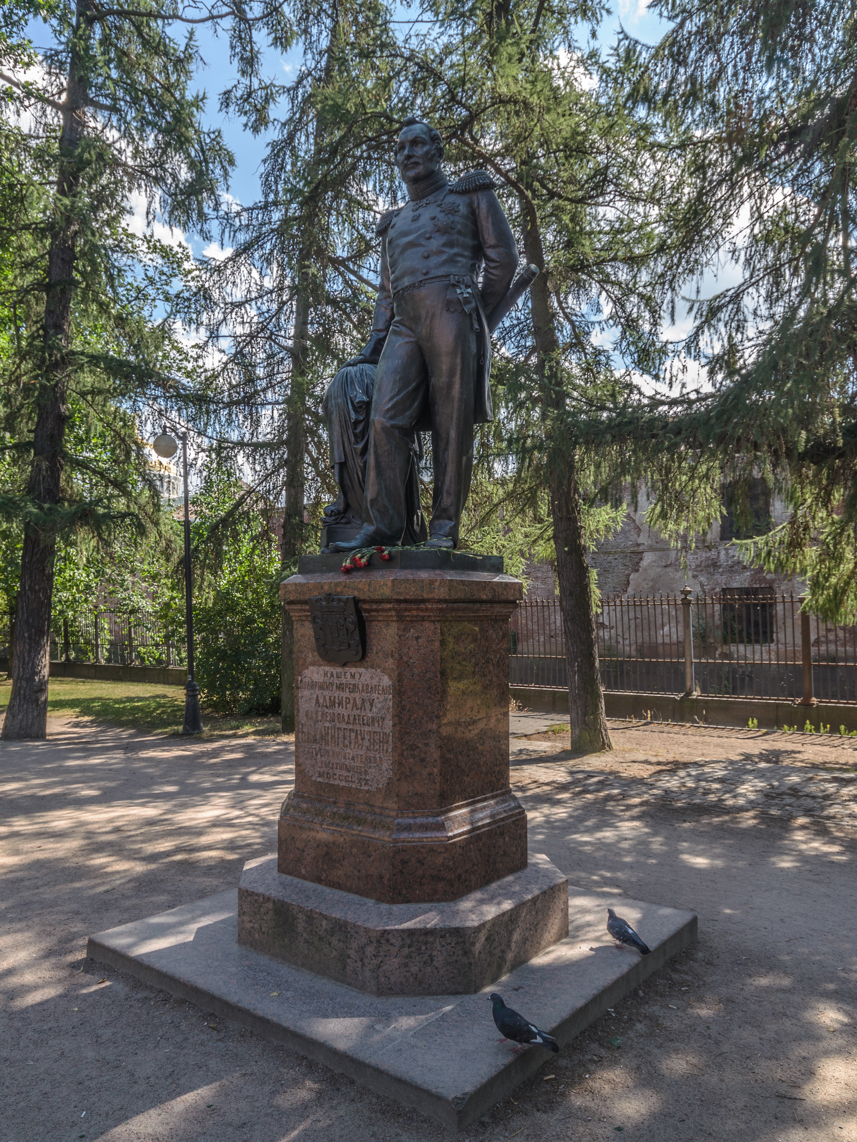 Monument to Bellingshausen in Kronstadt